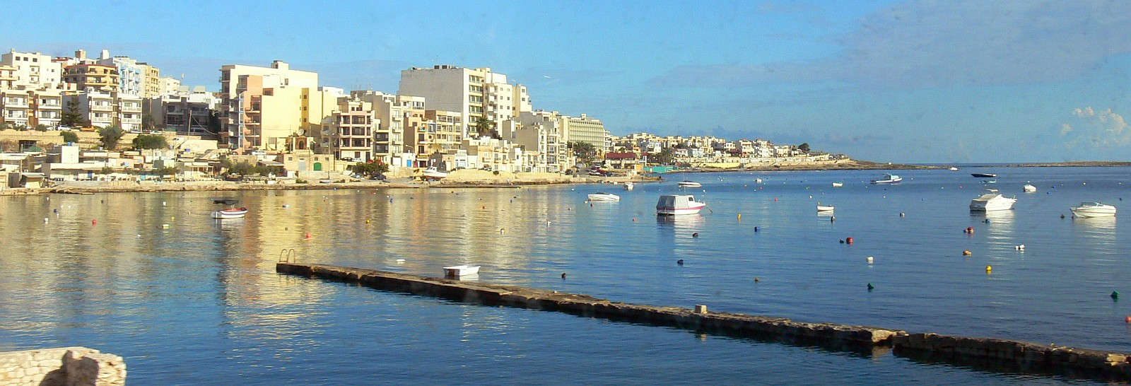 Qawra across Salina bay